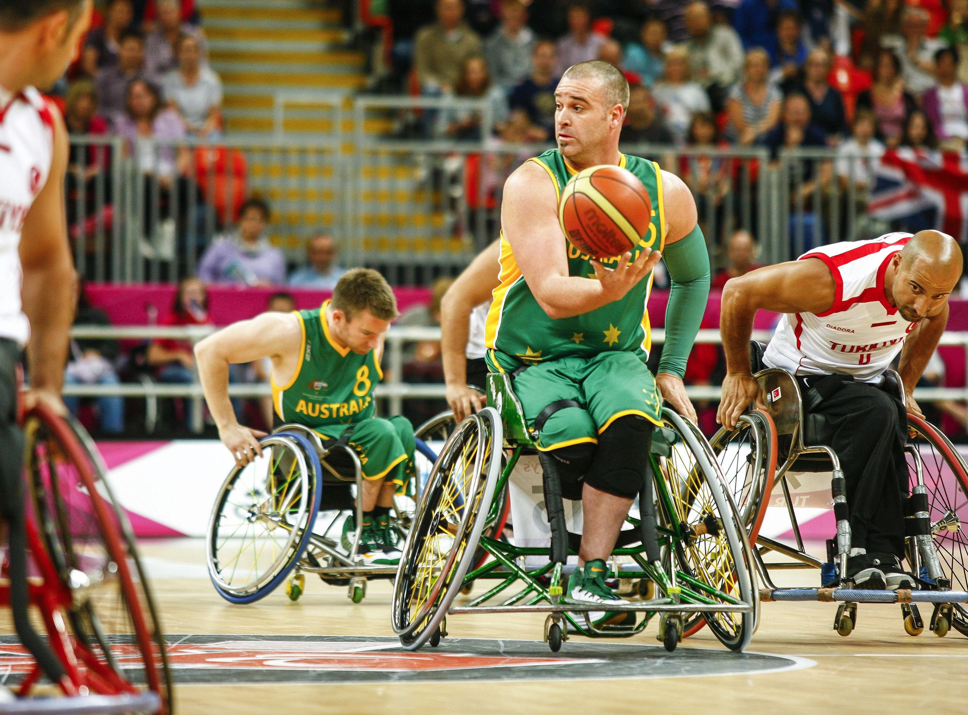 Photograph of Australian Paralympic team member Brad Ness at the 2012 Summer Paralympic Games in London